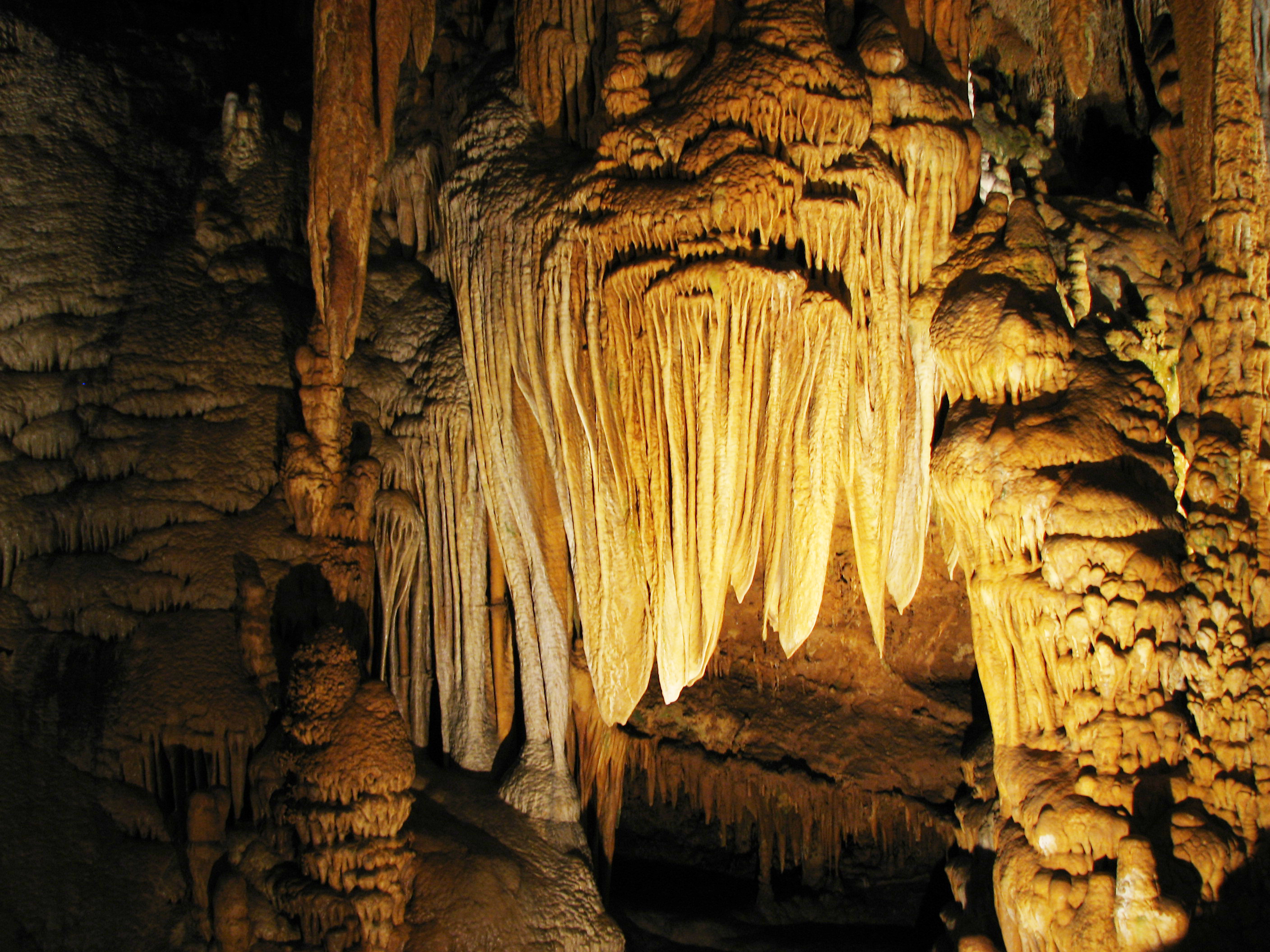 Luray Caverns